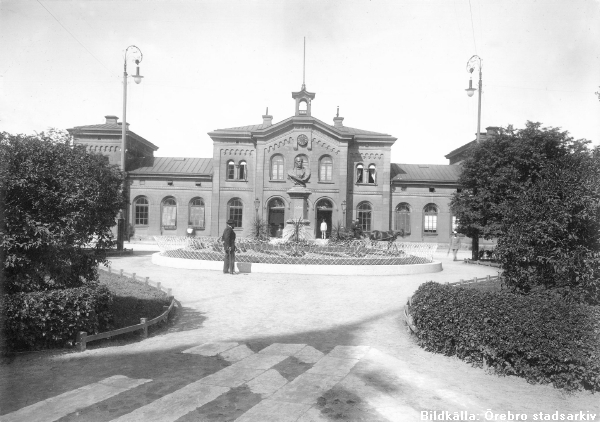 The main railroad station in Örebro, Sweden